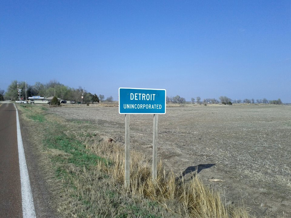 Sign outside of Detroit, Kansas noting its location.